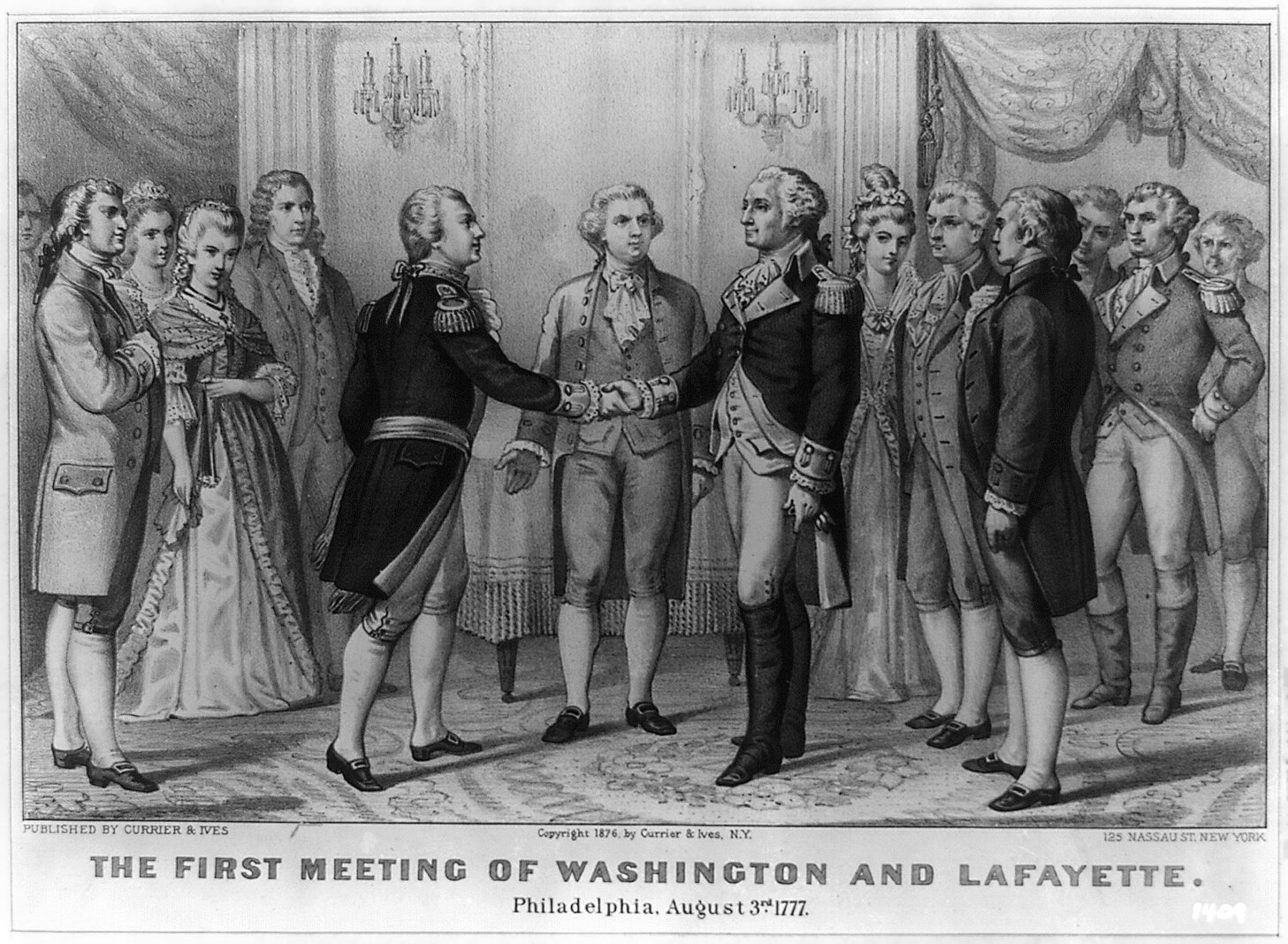 Title: The First meeting of Washington and Lafayette, Philadelphia, Aug. 3rd, 1777 Creator(s): Currier & Ives., Date Created/Published: New York : Published by Currier & Ives, c1876. Medium: 1 print : lithograph. Reproduction Number: LC-USZ62-1409 (b&w film copy neg.) Rights Advisory: No known restrictions on publication. Call Number: PGA - Currier & Ives--The first meeting of Washington and Lafayette ... (A size) [P&P] Repository: Library of Congress Prints and Photographs Division Washington, D.C. 20540 USA Notes: Title from item. Copyright 1876, by Currier & Ives, New York. Reference copy in Presidential File. Currier & Ives : a catalogue raisonne '/ compiled by Gale Research. Detroit, MI : Gale Research, c1983, no. 1637. Subjects: Washington, George,--1732-1799--Military service. Lafayette, Marie Joseph Paul Yves Roch Gilbert Du Motier,--marquis de,--1757-1834--Military service. United States--History--Revolution, 1775-1783--Military personnel. Format: Lithographs--1870-1880. Collections: Popular Graphic Arts